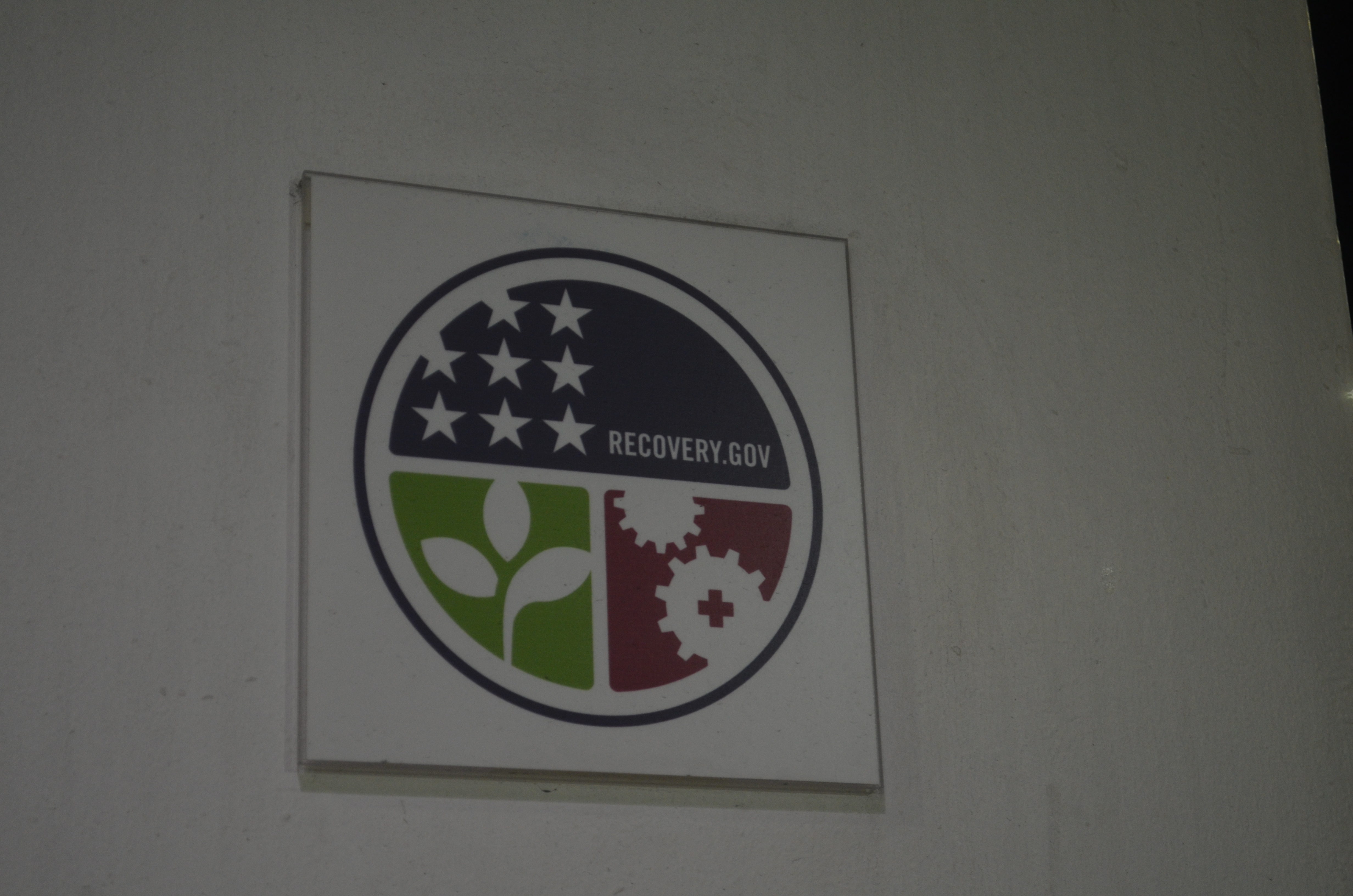 en